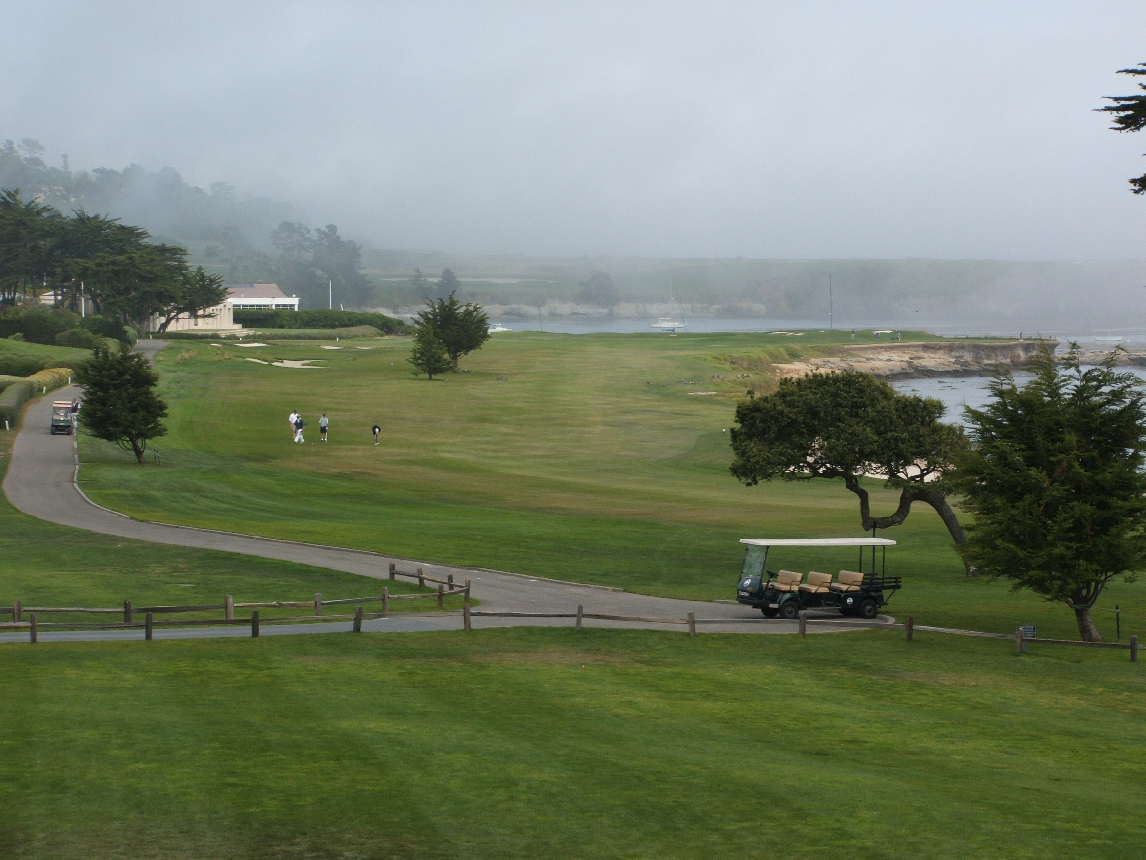 18th green; taken from the "Ocean View," the back of The Lodge at Pebble Beach